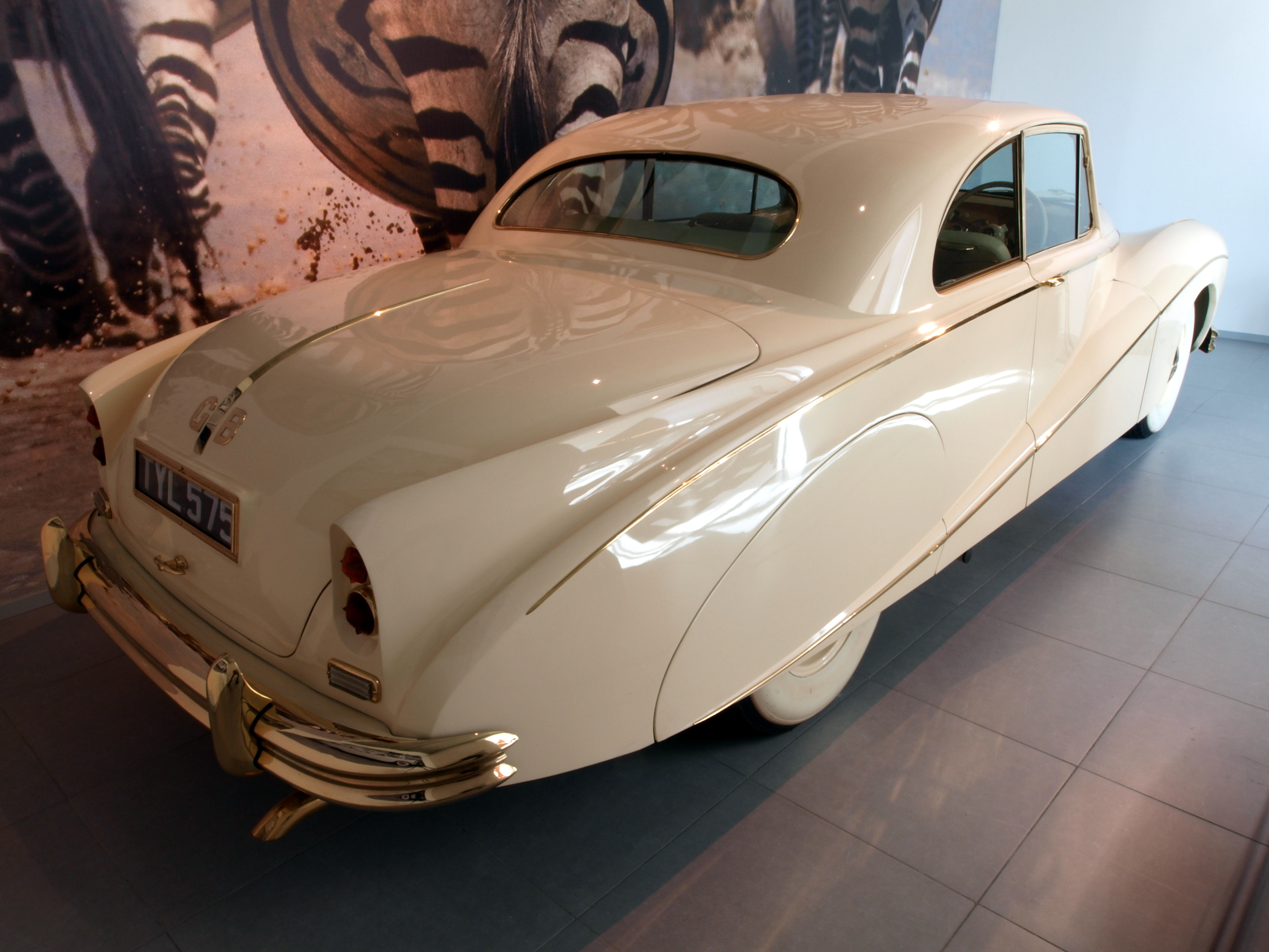 Photographed at the Louwman museum / Louwman Collection, The Netherlands.